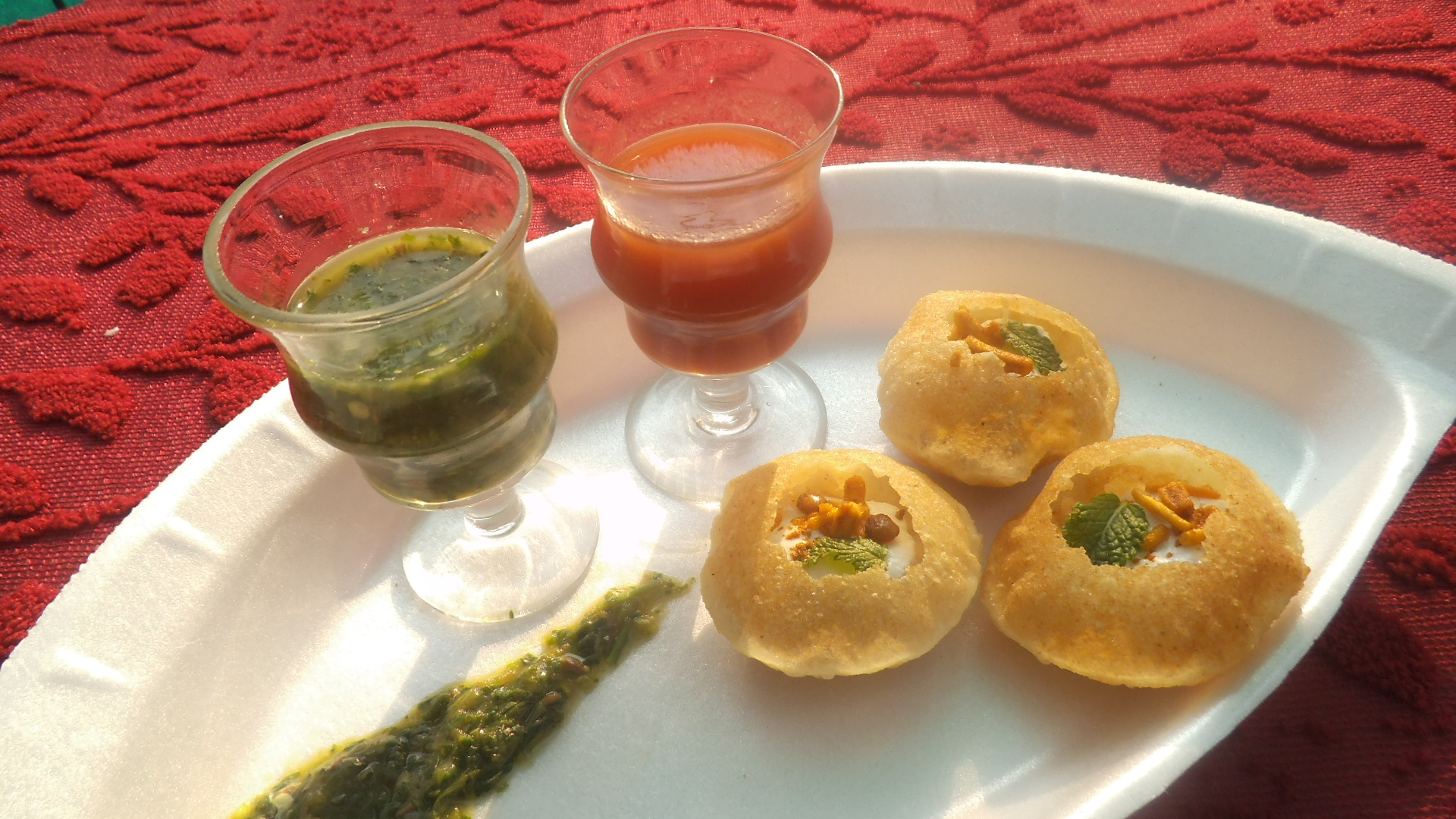 The Dahi paani-puri is an Indian street food. It consists of hollow crunchy spheres made by frying semolina dough cut outs called "puri". The puri is cracked at the top making a hole. Mashed potatoes are inserted through the hole followed by "dahi" (in hindi dahi means yogurt). At this stage it is called "sukhi puri" (in hindi sukhi means dry). Adding black salted chickpea to the puri is optional. The rest of the puri is now filled with either sweet tamarind water or spicy green chilli and mint water. When the puri breaks in the mouth the flavors of smooth potatoes, spicy water and crunchy puri can be savoured all at once.